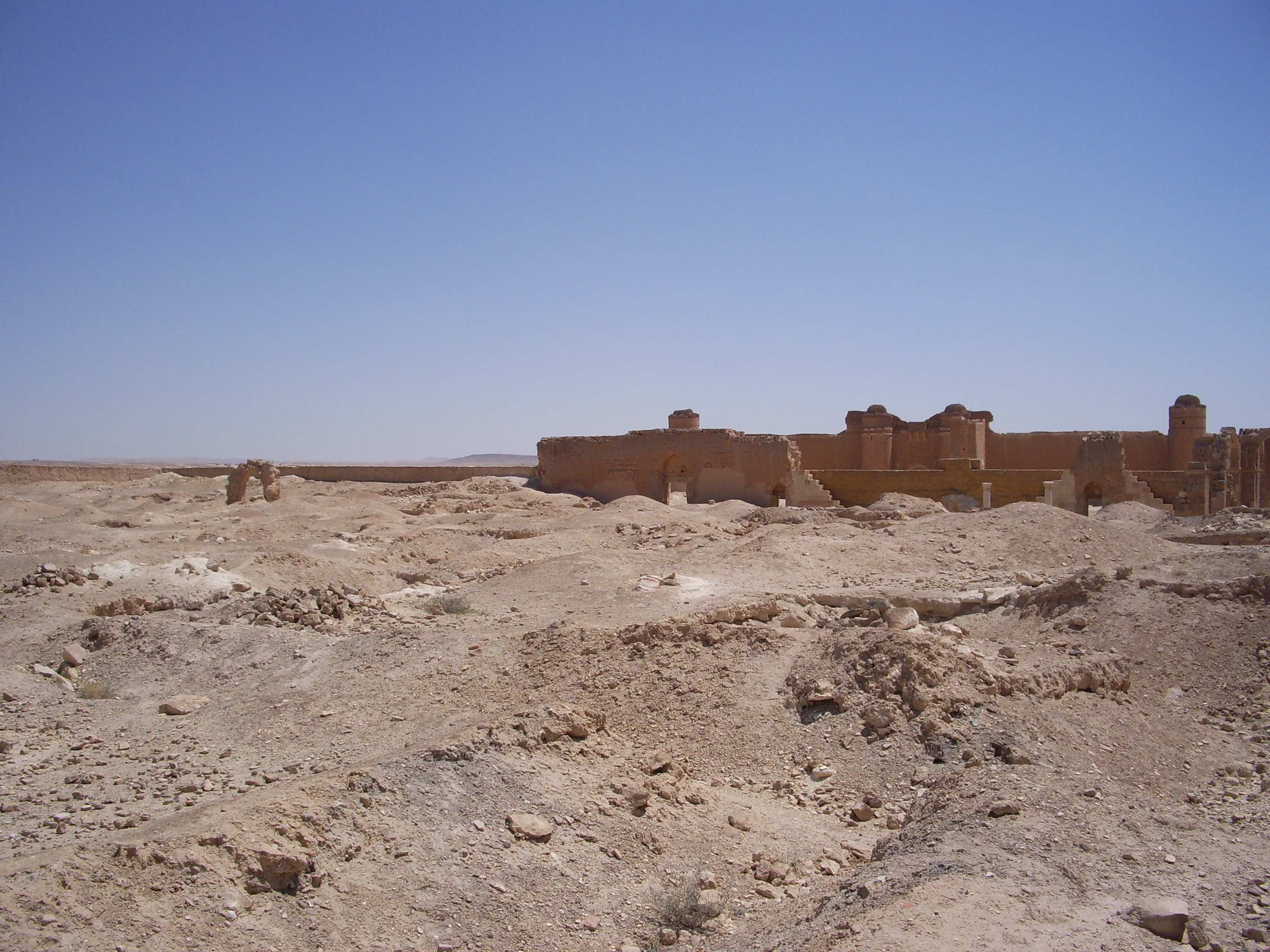 There's two sections to this cast, this is the public section, and the other side was solely for the use of the Caliph and his guests.